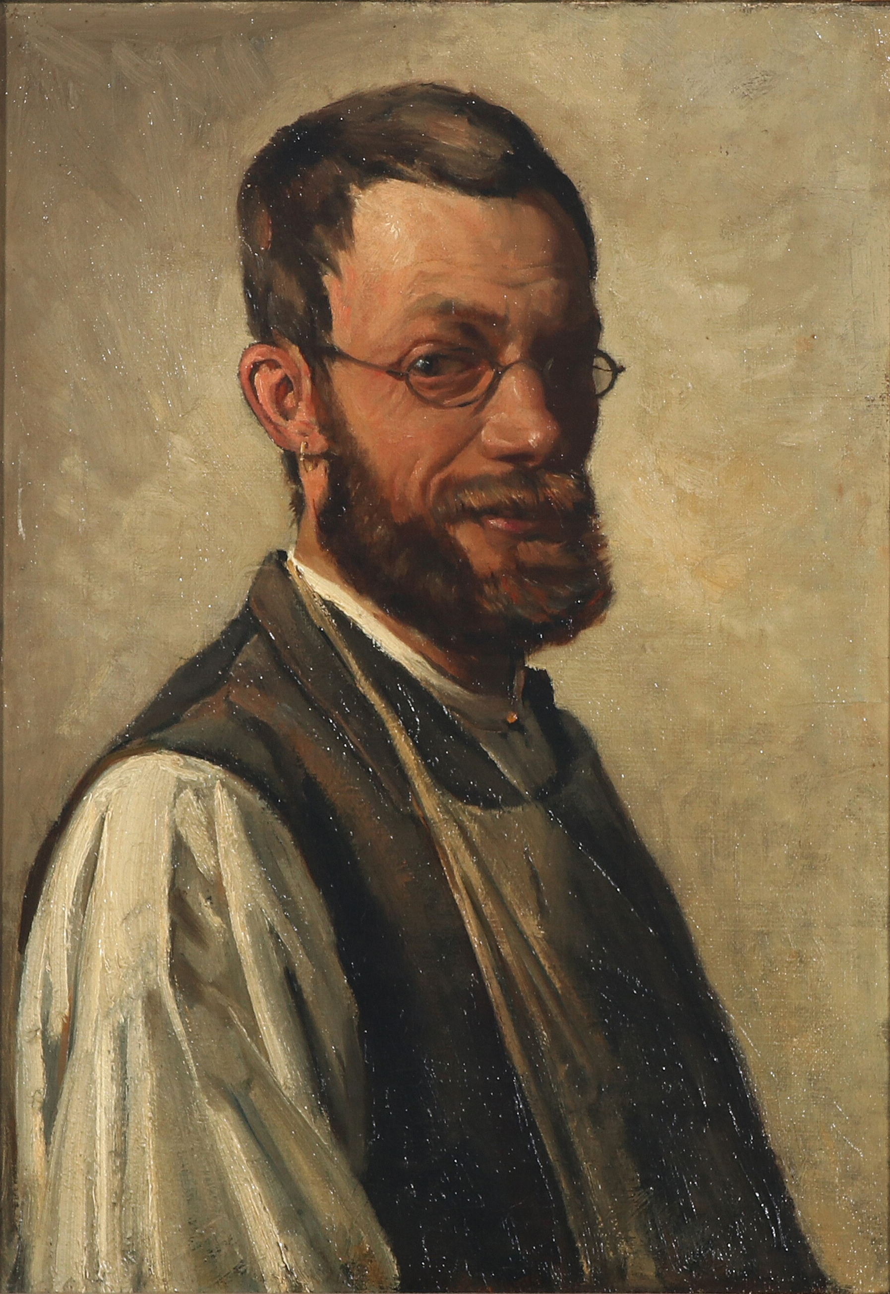 A note on the back of the frame informs that this is a self-portrait done by Valdemar Irminger in 1883.